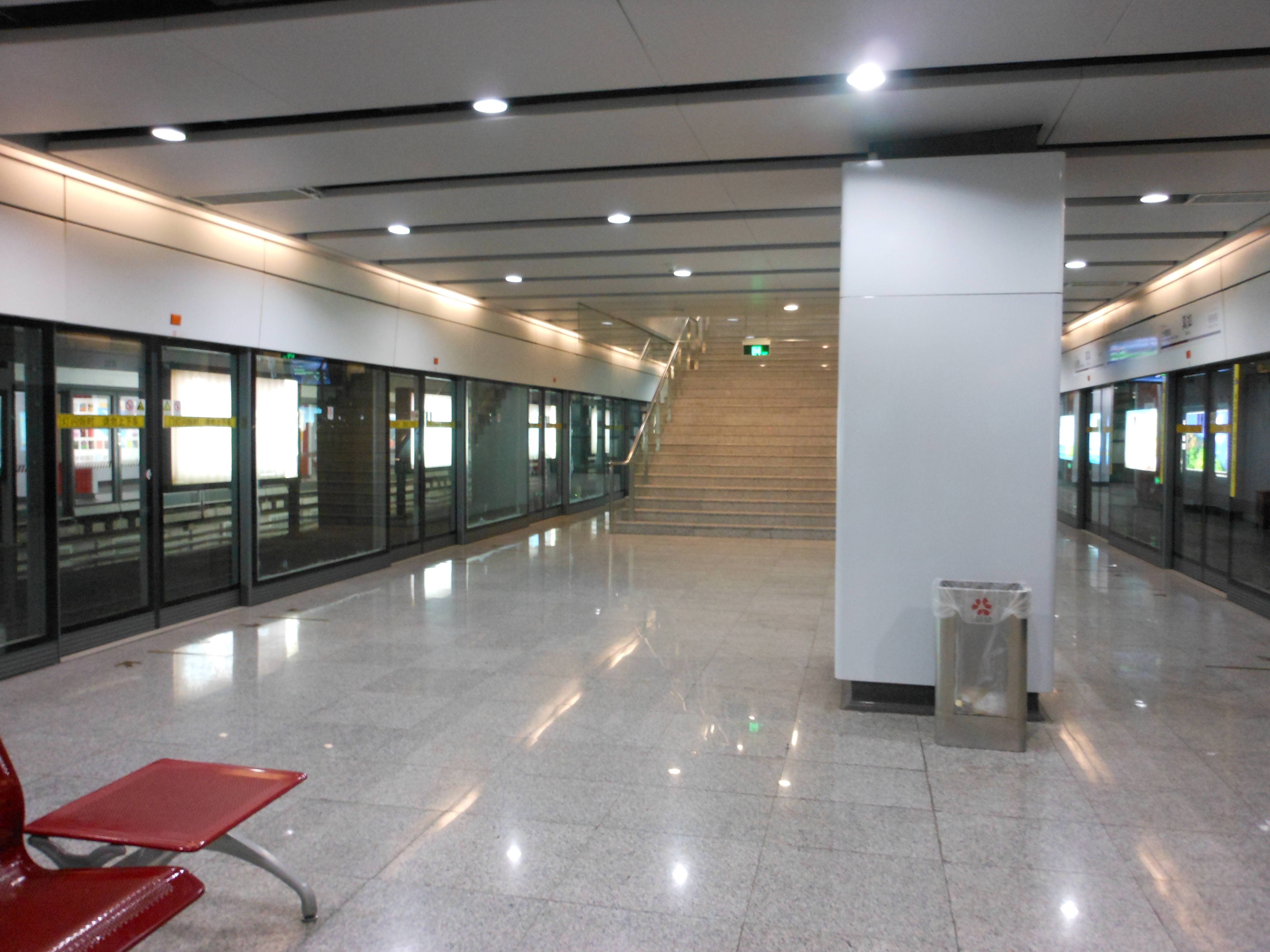 Line 11 Platform of Zhenru Station